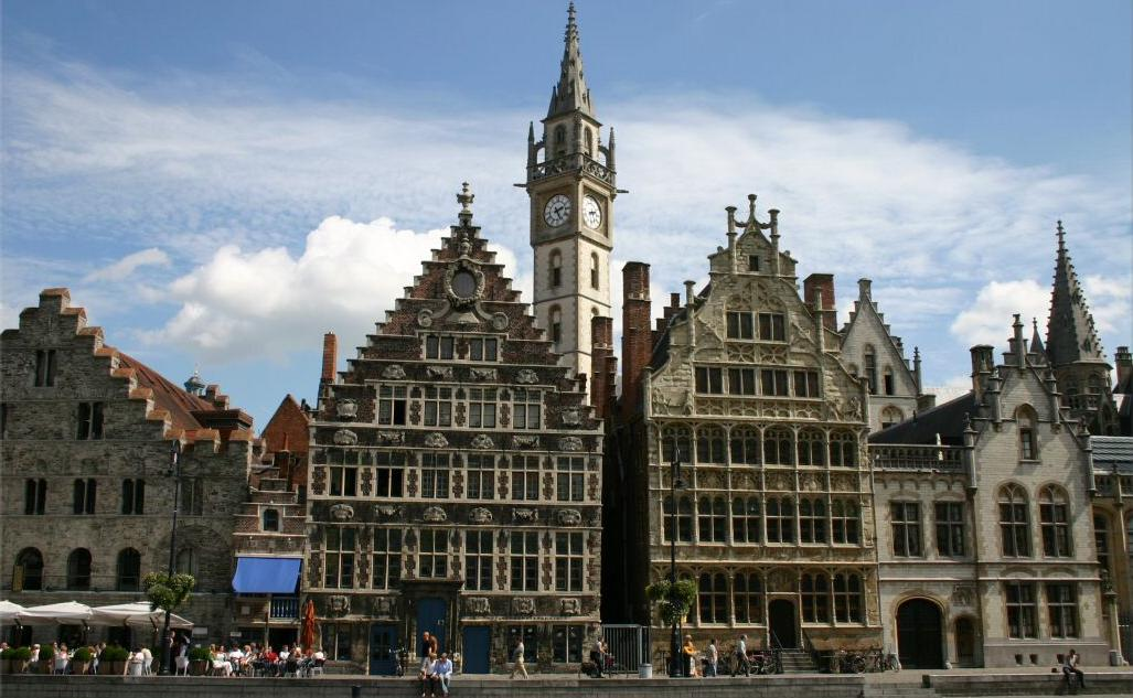 Graslei and the Korenlei I took the picture in August '04 and uploaded it here (English Wikipedia).